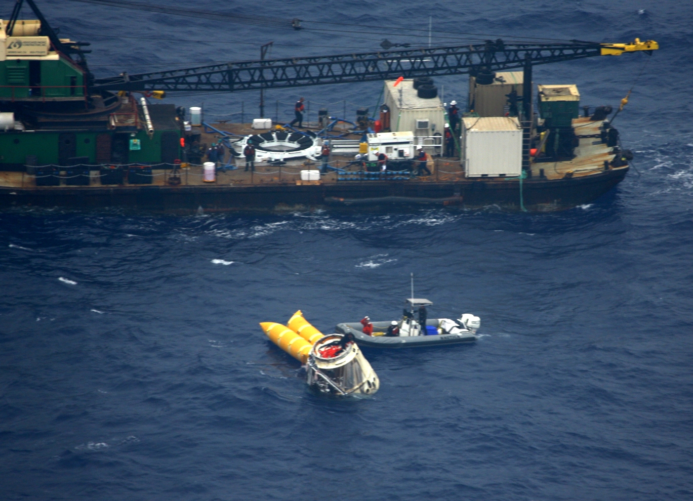 The Dragon spacecraft floats next to the barge that will carry it back to shore after the mission that made SpaceX the first commercial company to send a spacecraft to the International Space Station.